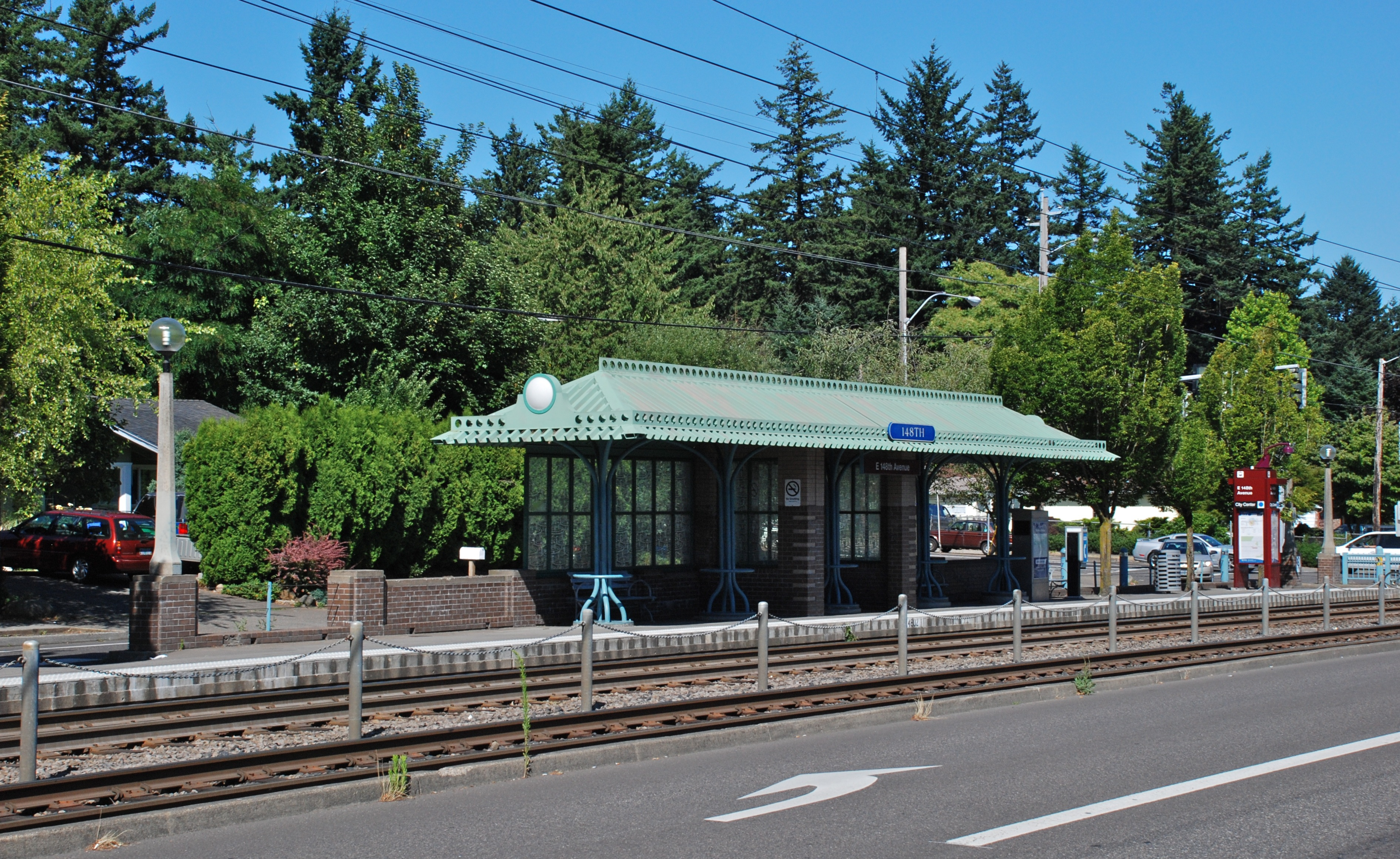 The westbound platform of the East 148th Avenue MAX station, viewed from the south. (This is the easternmost station within the city of Portland, as the 162nd Avenue station is just east of the Portland–Gresham boundary, in Gresham.)